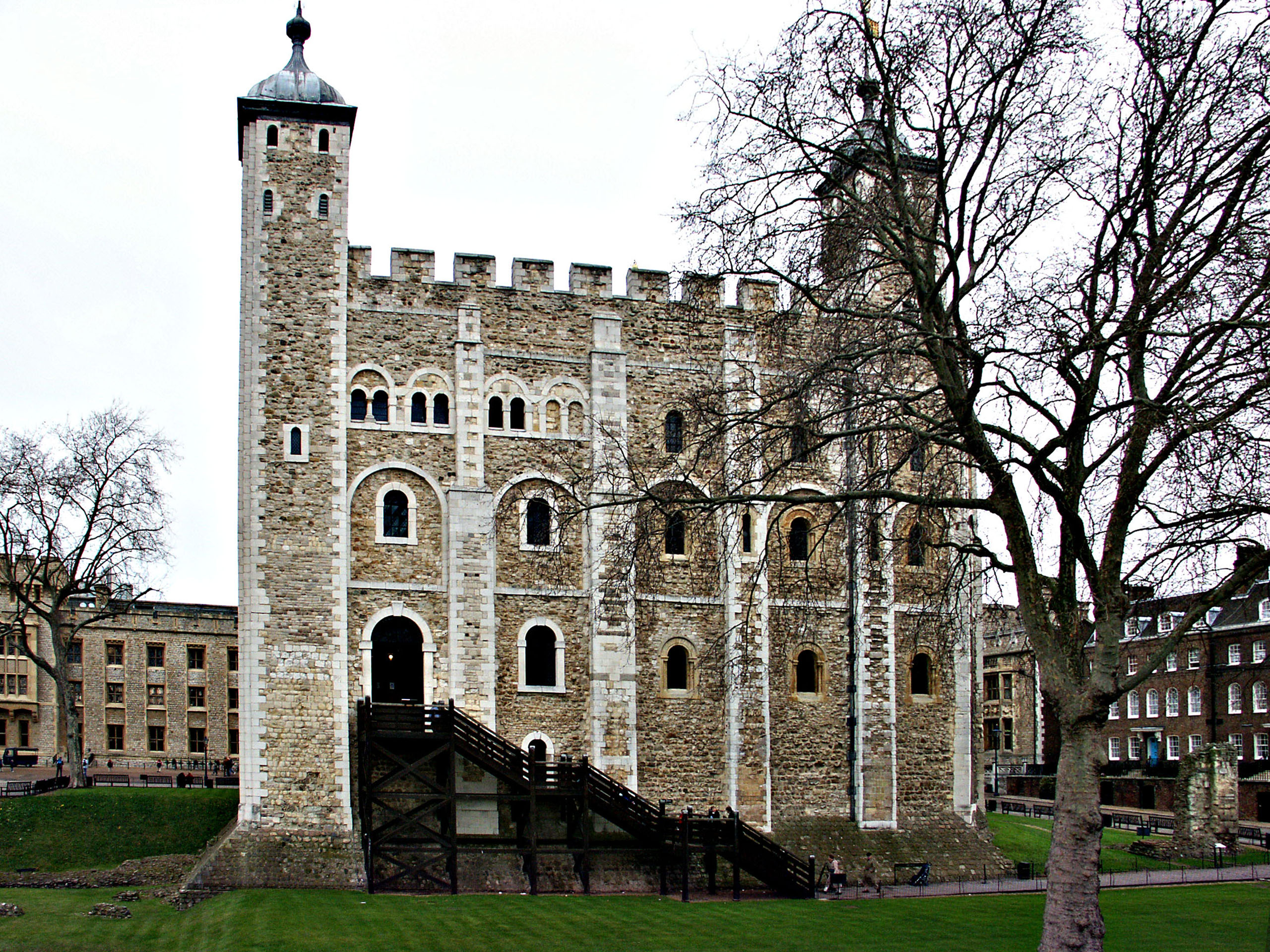 Tower of London